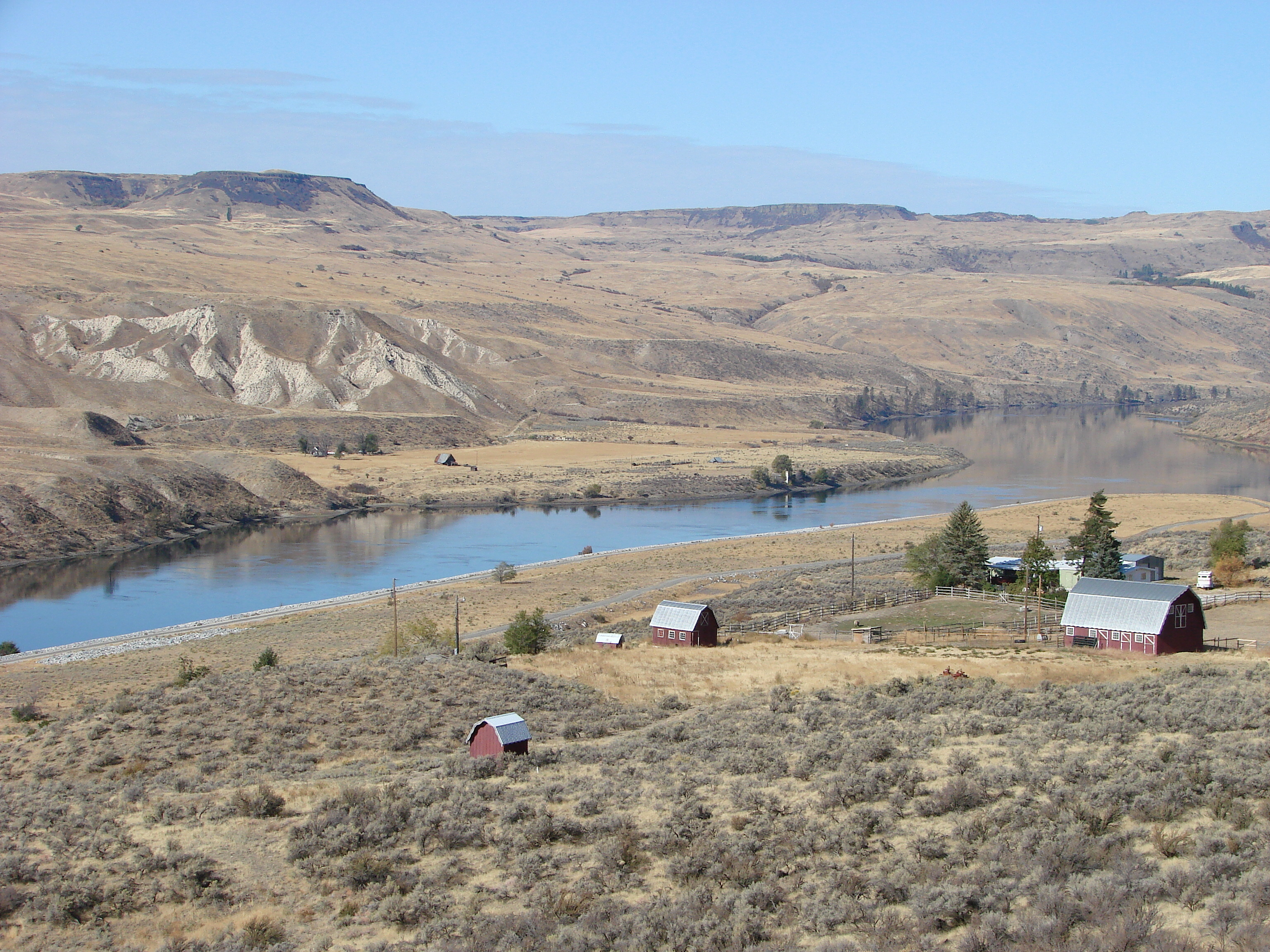 Washington State - Landscape near Okanogan WA - USA - 03